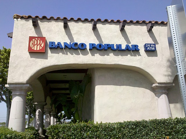 This is the sign on the exterior of the building at a location in Anaheim Hills